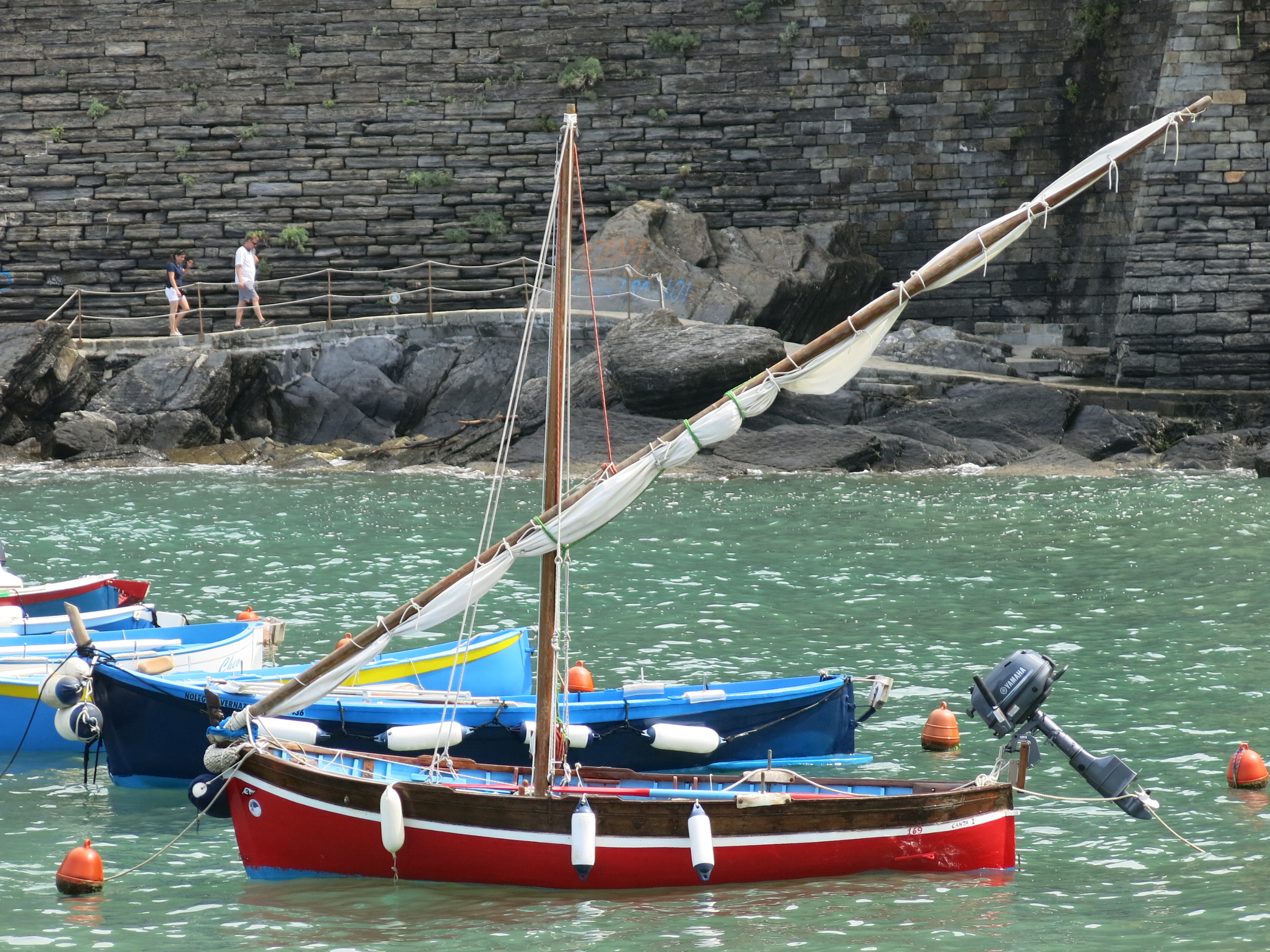 Italian sailing ship Leudo style in Vernazza Marina (Liguria, Italy).